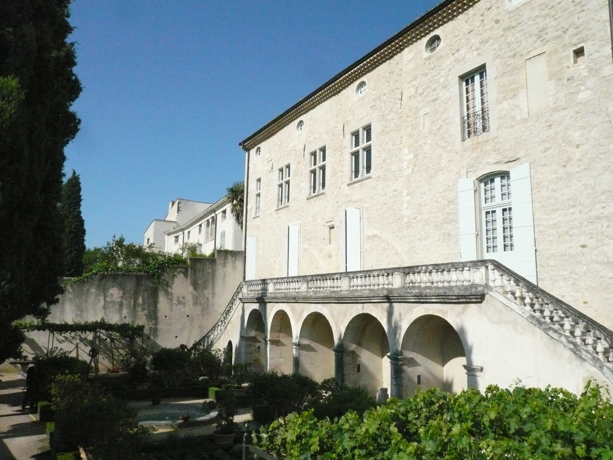 medieval house